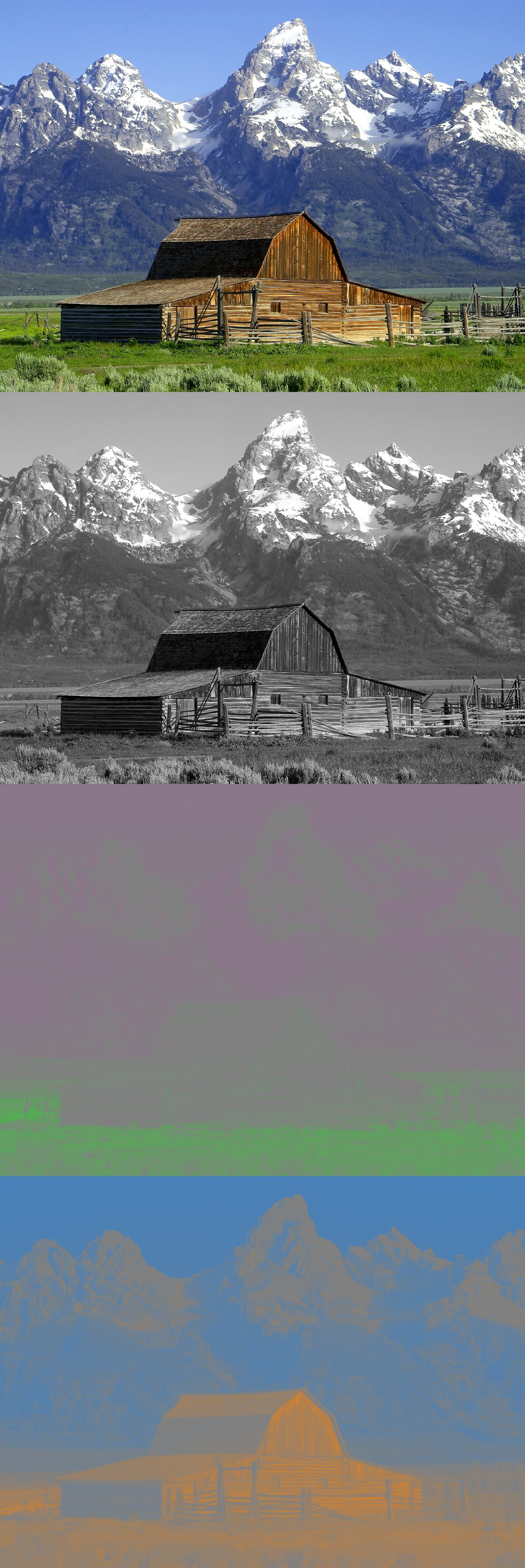 Shows the separation of the image into Y, Cg and Co color components, picture is of the T.A. Moulton Barn